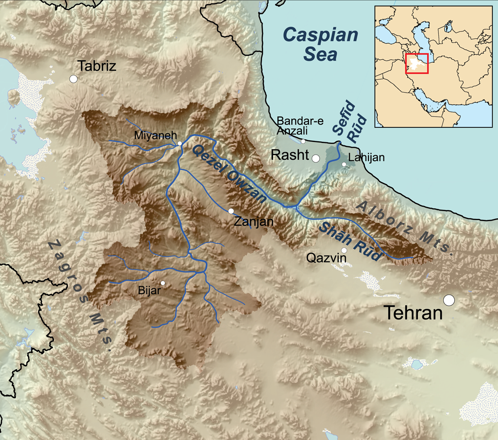 Map showing the Sefīd-Rūd drainage basin in Iran.